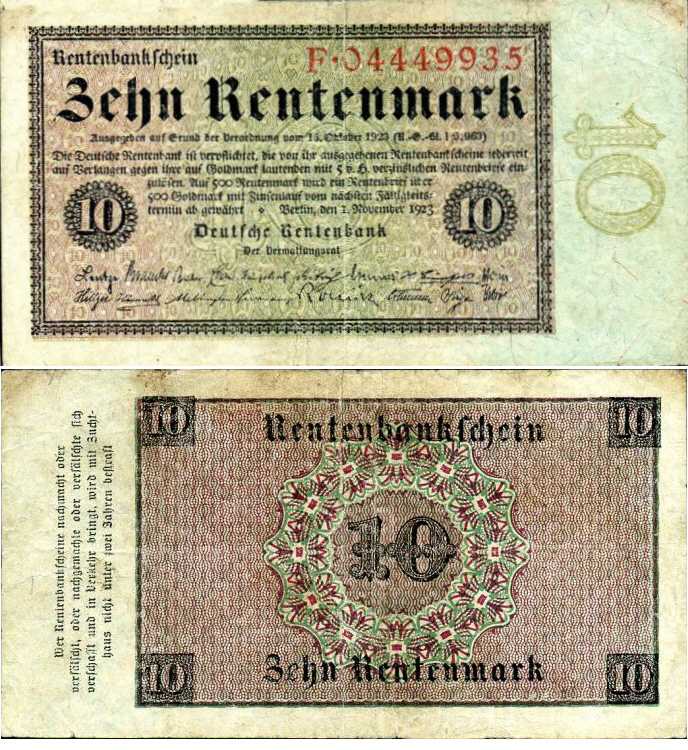 10 Rentenmark from 1923-11-1 equivalent to 10 trillions Papermark from inflation time